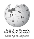 A logo for Wikipedia in the Kannada language.